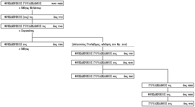 House of Hohenzollern from 1640 to 1918